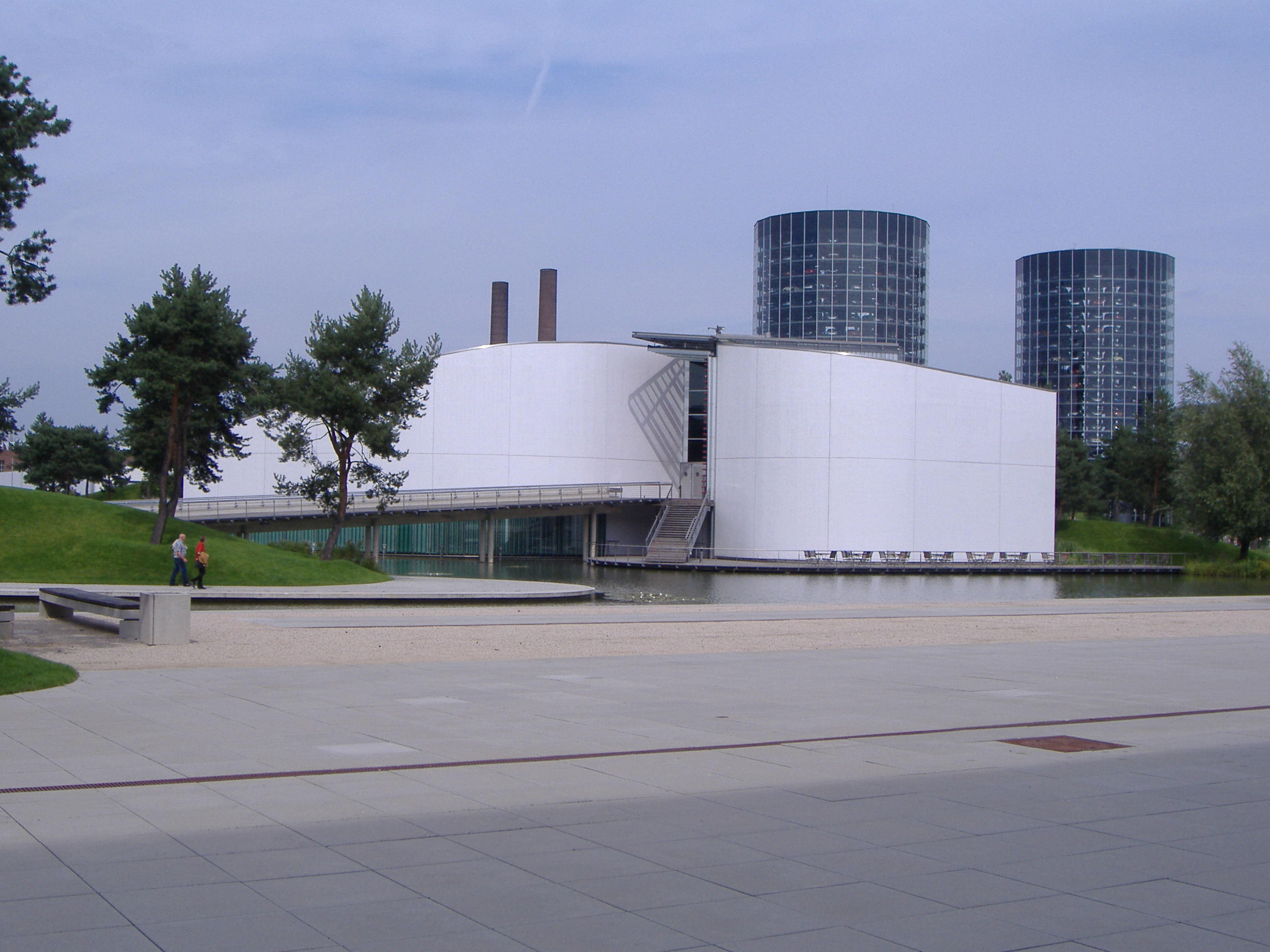 Created by Erebus555. This is the SEAT pavilion at Autostadt.